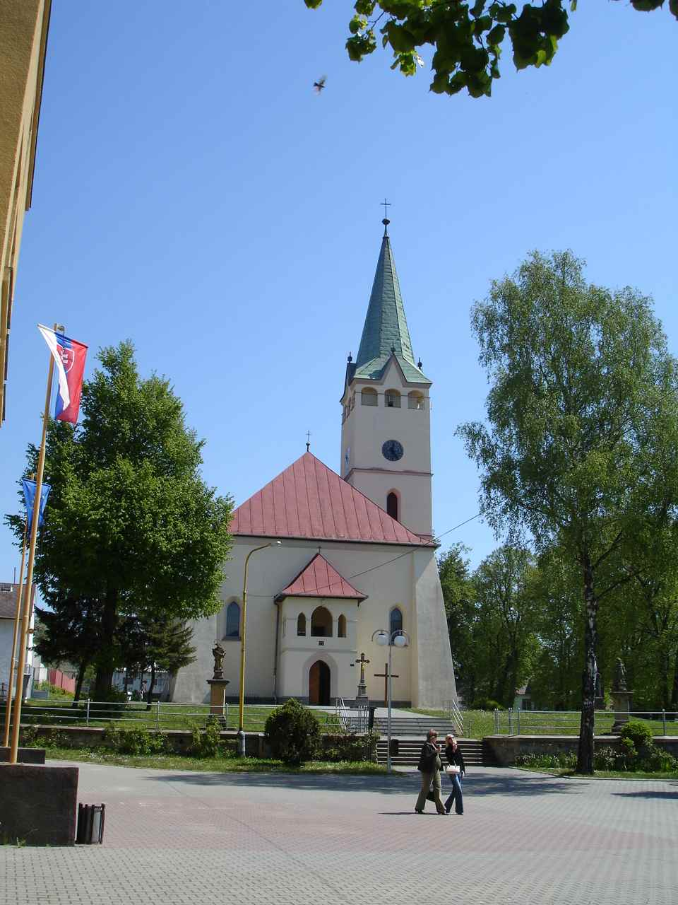 Stropkov The Gothic Church from 14th